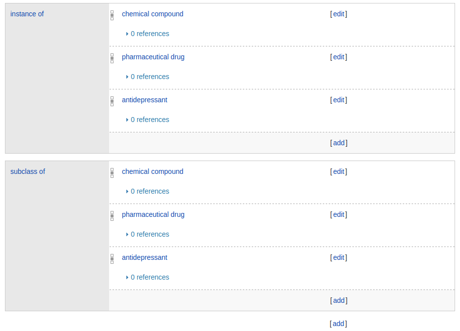 Example of wrong handling of "instance of" and "subclass of" (See Wikidata Help:Basic membership properties